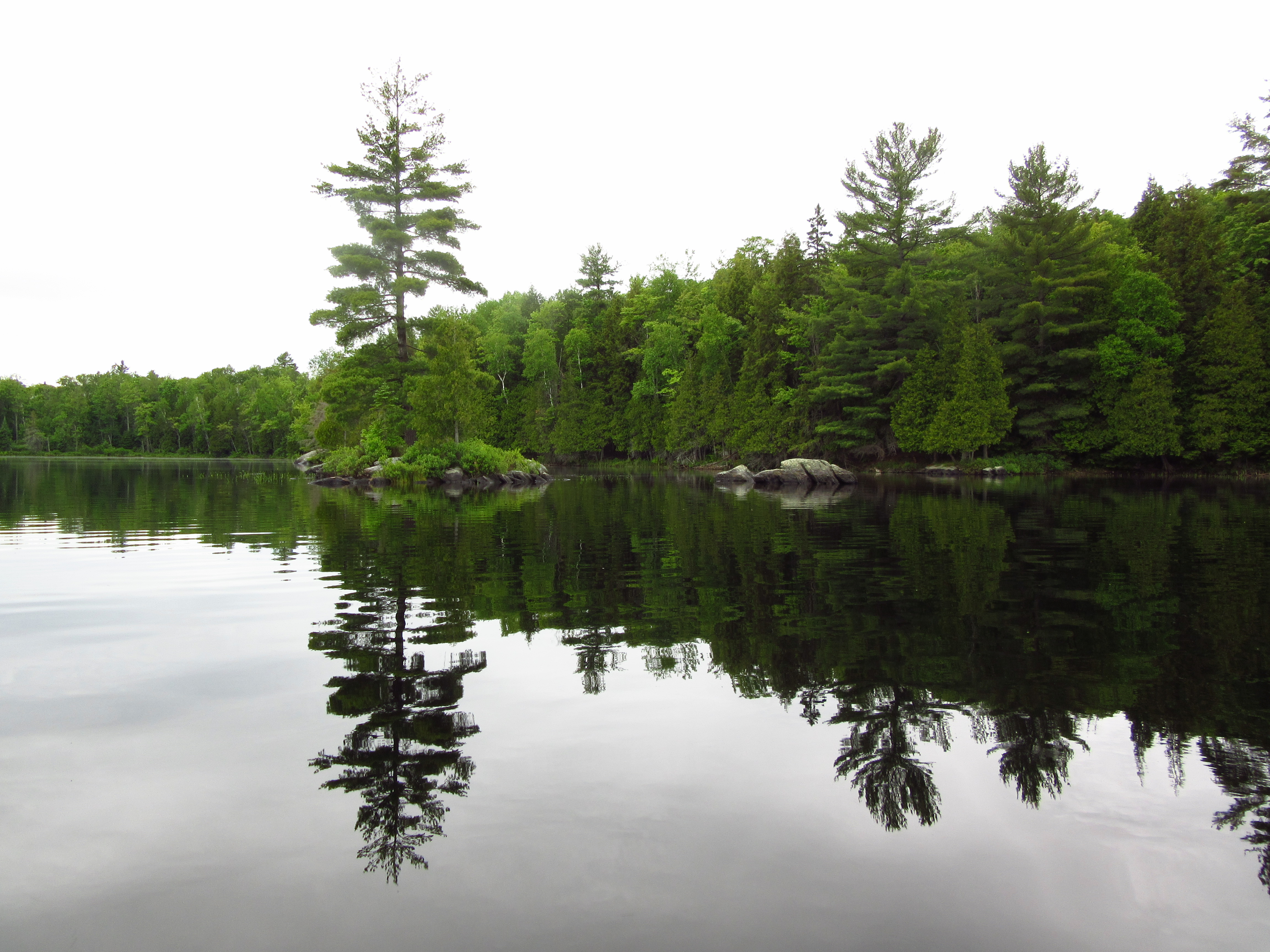 June 2017, shore of Silent Lake Provincial Park, Ontario, Canada